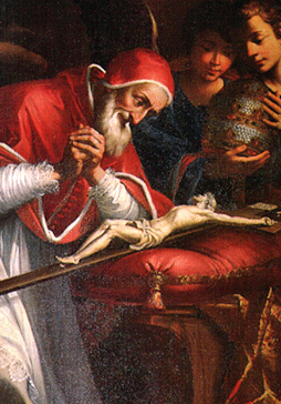 Saint Pius V loves Jesus Christ on cross.